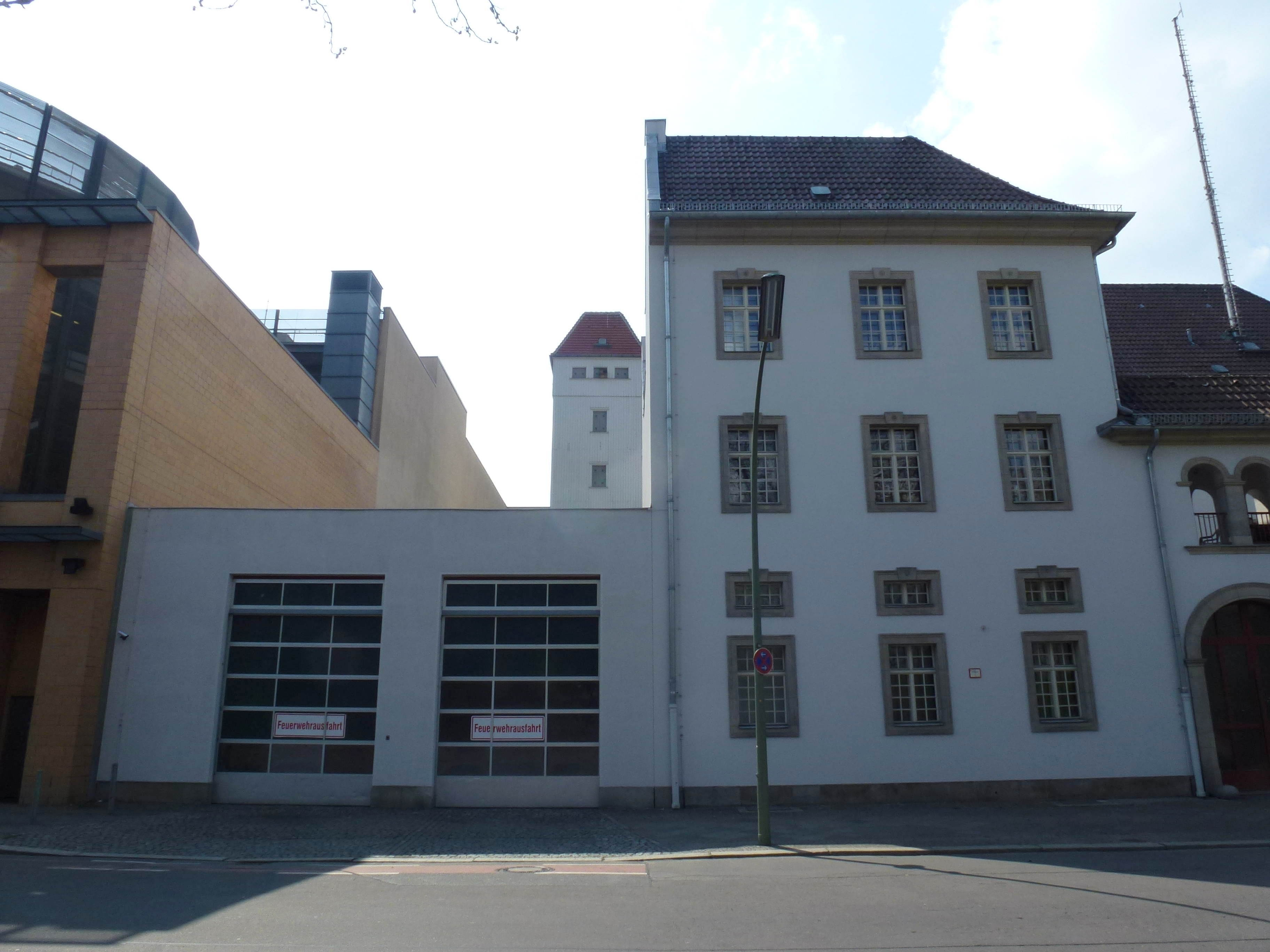 Berlin-Wedding Edinburger Straße Feuerwehrwache Schillerpark